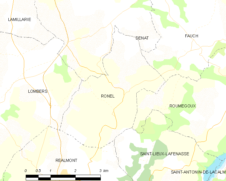 Map of French municipality Ronel